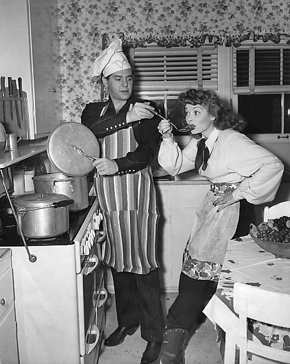 Photo of Lucille Ball and Desi Arnaz in their kitchen at home. Desi has made some soup and Lucy is tasting it.